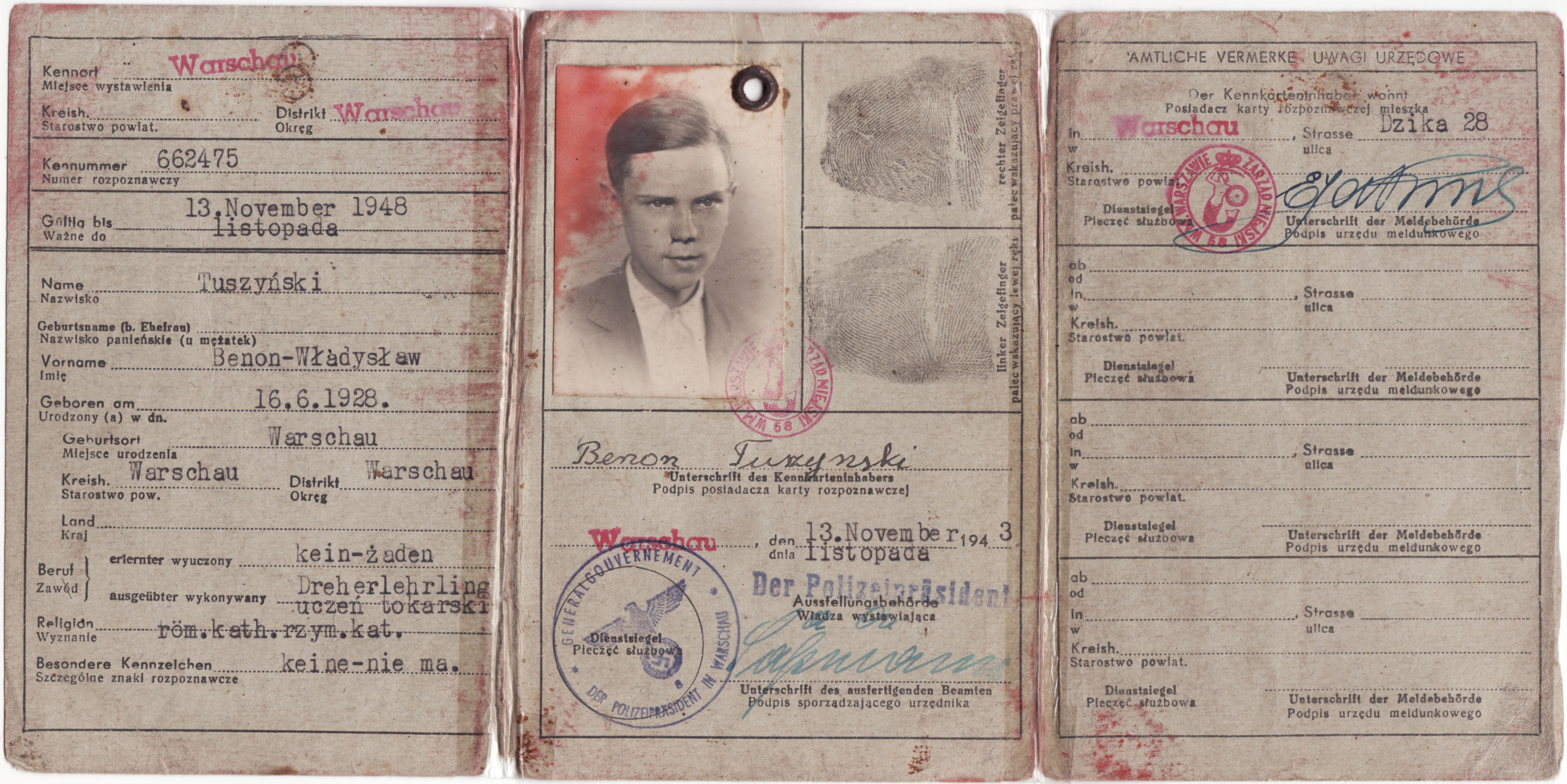 Kennkarte of Benon Tuszynski from 1943